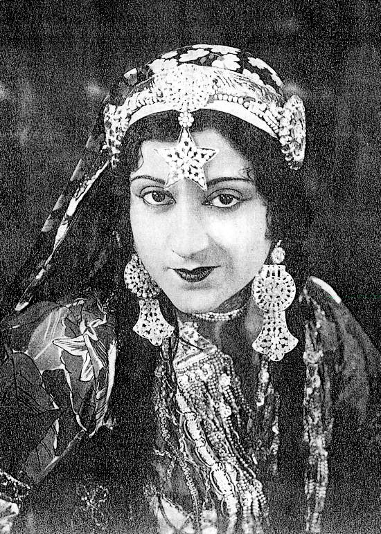 Sultana Razaaq, (India). Daughter of Nawab Sidi Ibrahim Muhammad Yakut Khan III of Sachin State and Fatima Begum. Silent film actor and director.